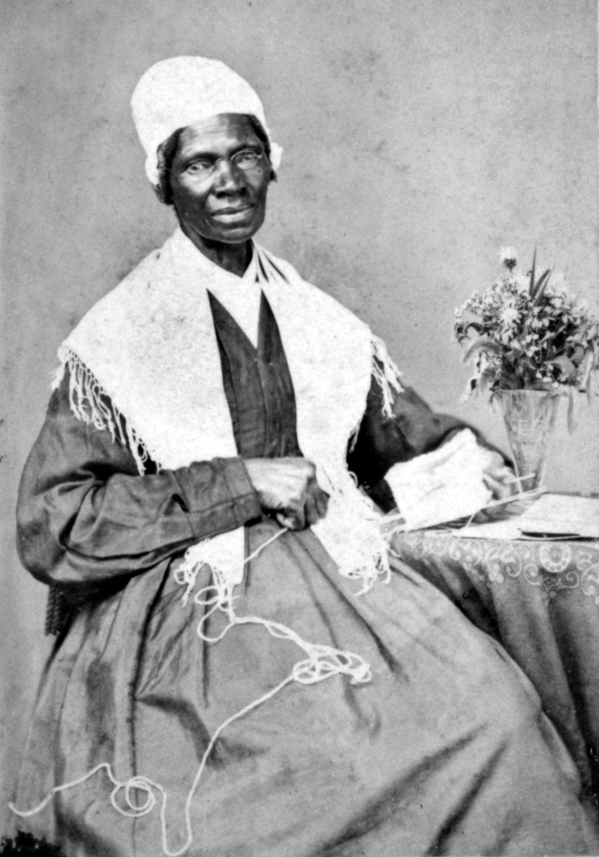 Carte de visite of Sojourner Truth (1797-1883)